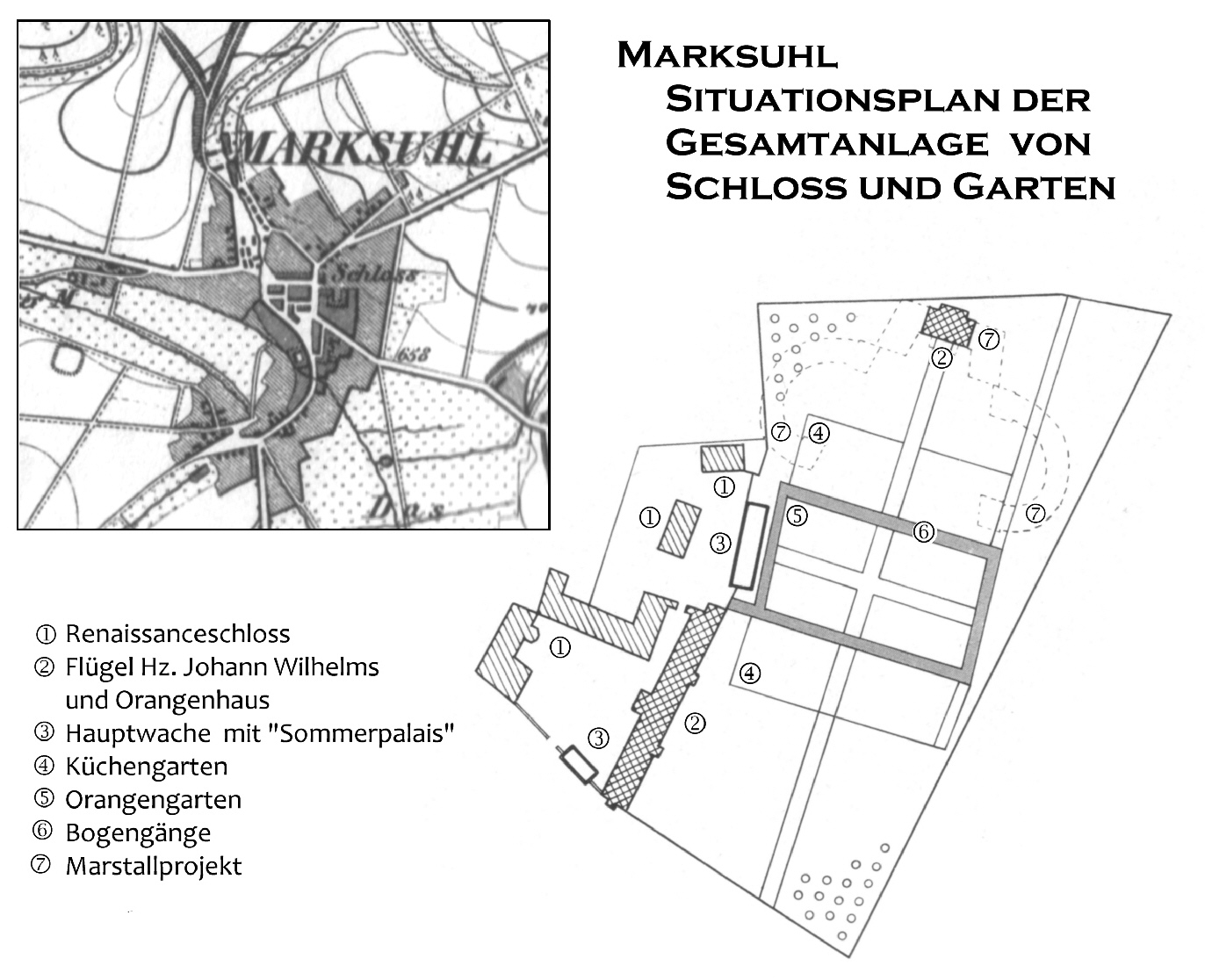 Map of the Marksuhl cottage.